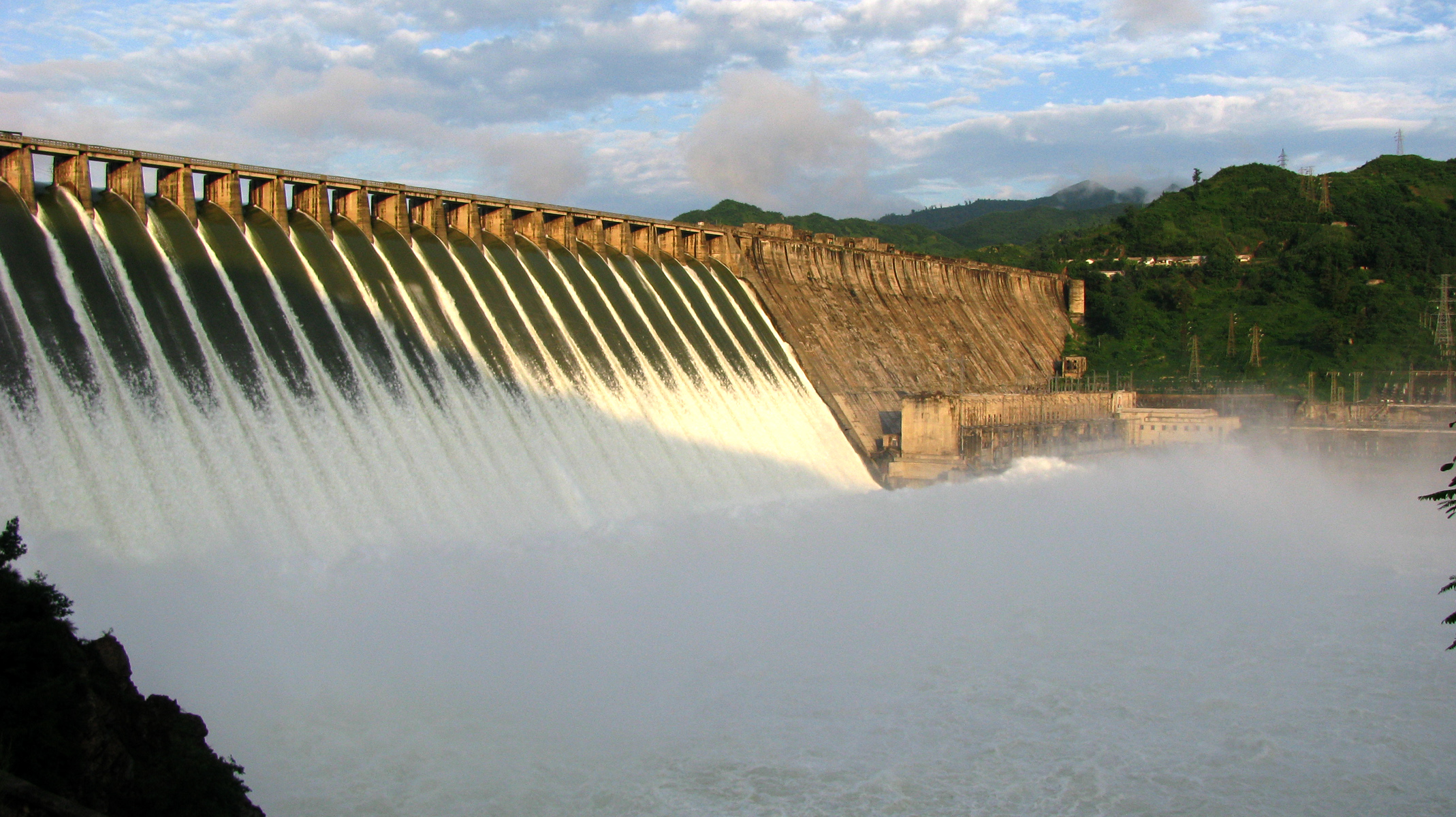 The Supung Dam on the Yalu River bordering China and North Korea.